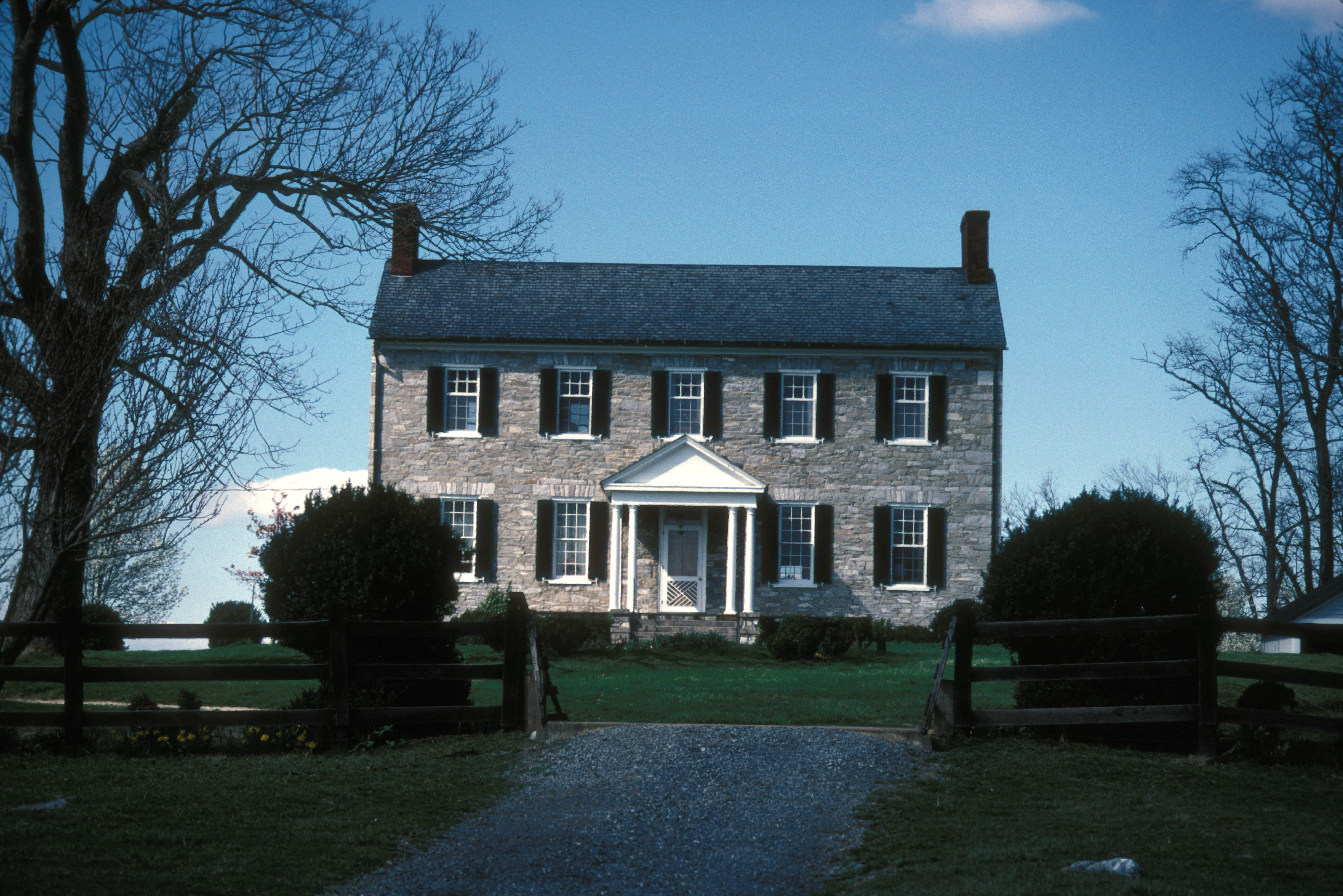 BUILT CIRCA 1830